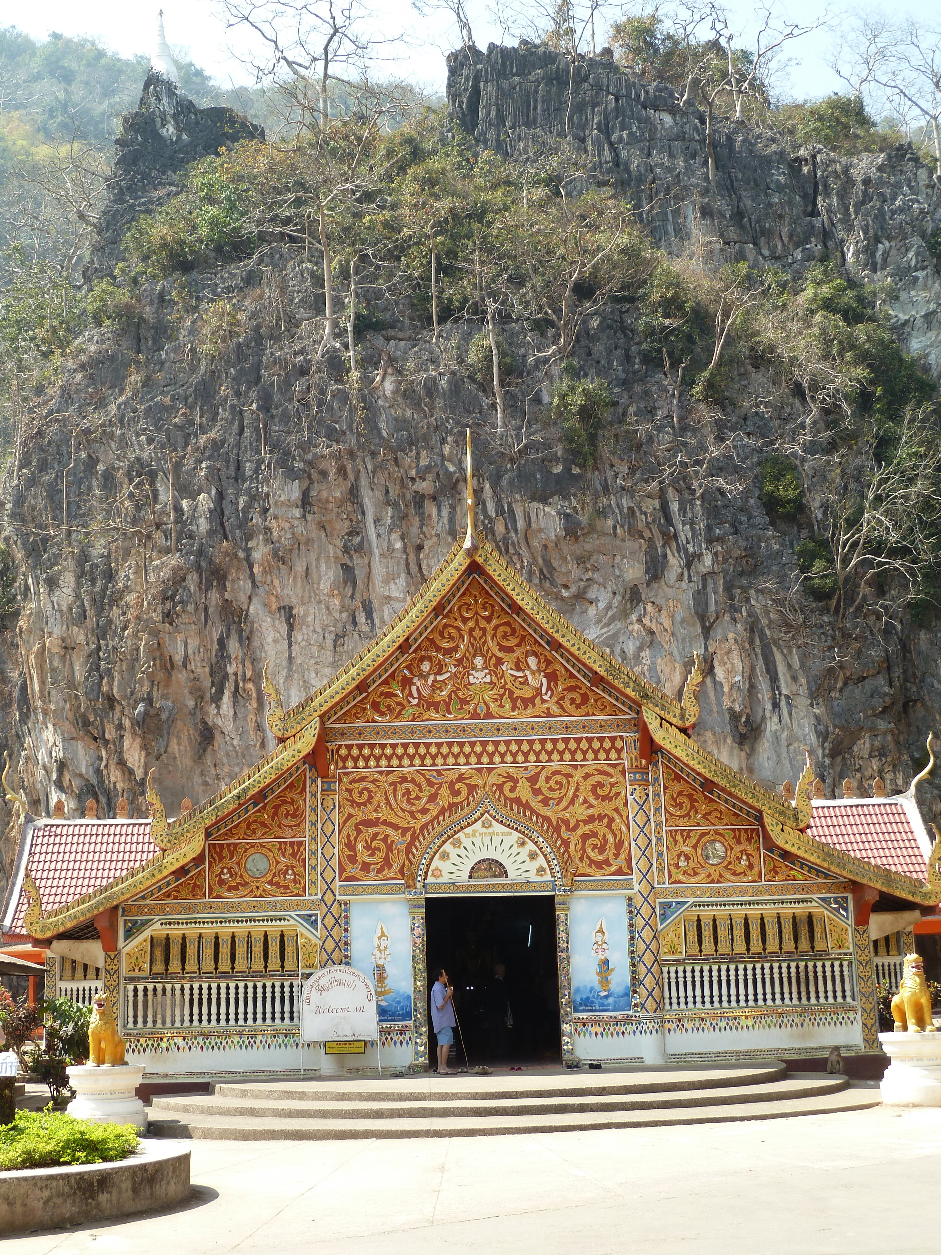 Monkey Cave or Tham Phum Tham Pla (Fish Cave), Pong Ngam village of Mae Sai, Chiang Rai Province, Thailand